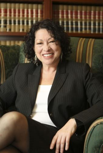 Judge Sonia Sotomayor in 2009. Part of a slide show, "Sotomayor Bio: Picutures from Throughout Judge Sotomayor's Life" According to the May 2009 White House copyright policy, "Except where otherwise noted, third-party content on this site is licensed under a Creative Commons Attribution 3.0 License." No alternative licensing information is given for these photos, so they are assumed to be available under the Creative Commons Attribution 3.0 License.